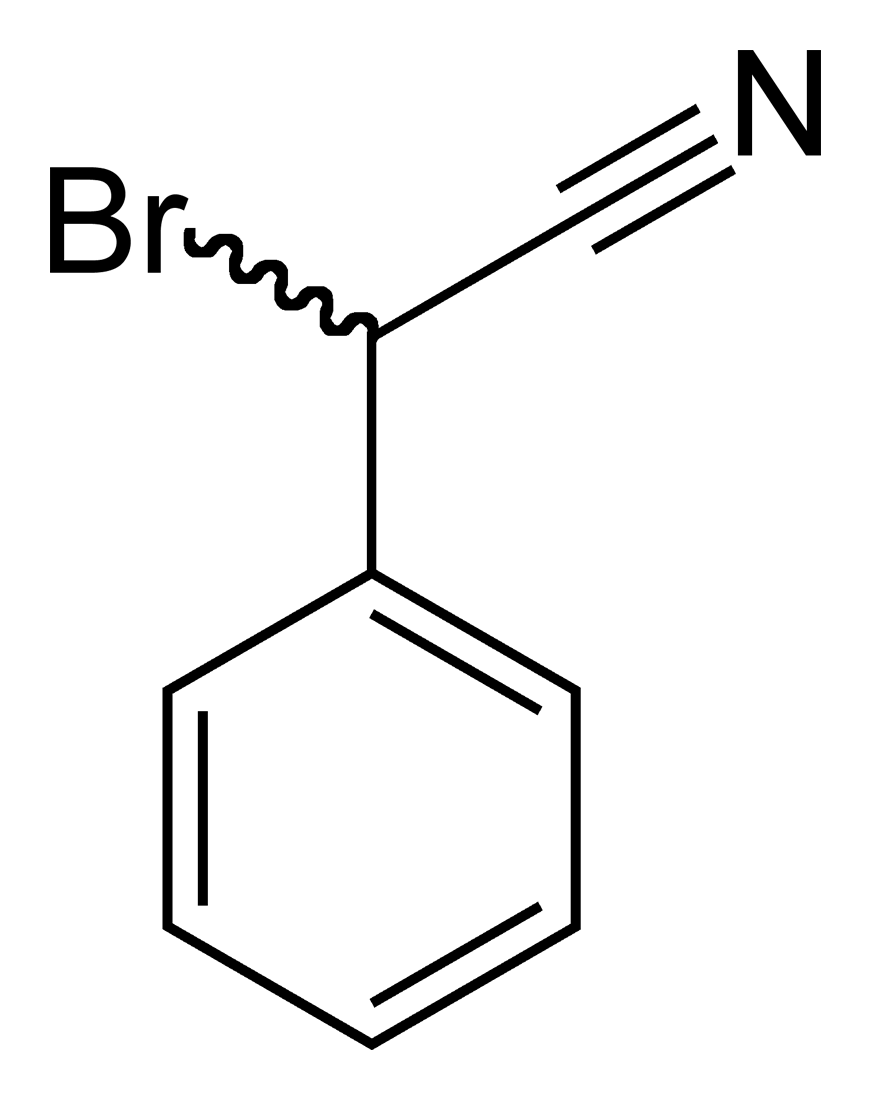 Skeletal formula of "bromobenzyl cyanide", a chemical weapon with CAS number 5798-79-8, more precisely described as α-bromobenzyl cyanide or 2-bromo-2-phenylacetonitrile, C8H6BrN.